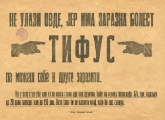 Poster about typhus, 1915 in Serbia